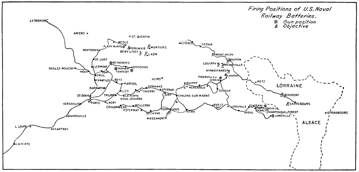 Map showing firing positions and targets of the US Navy 14 inch railway guns in France, 1918.